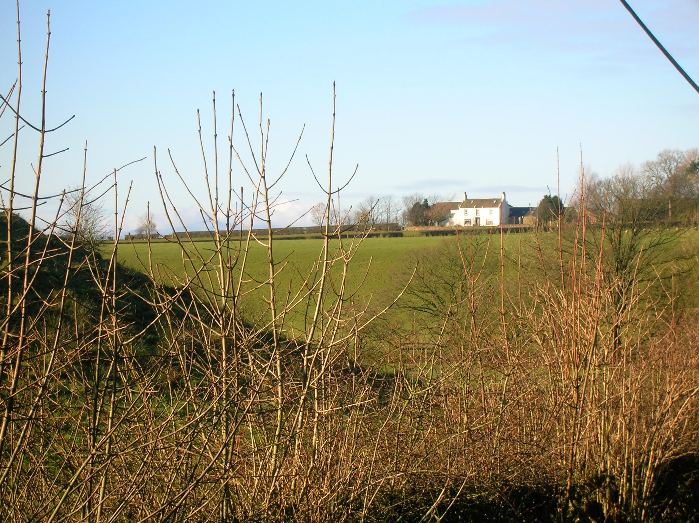 Chapeltoun Mains Farm in East Ayrshire from near Chapeltoun Bridge on the Annick Water.